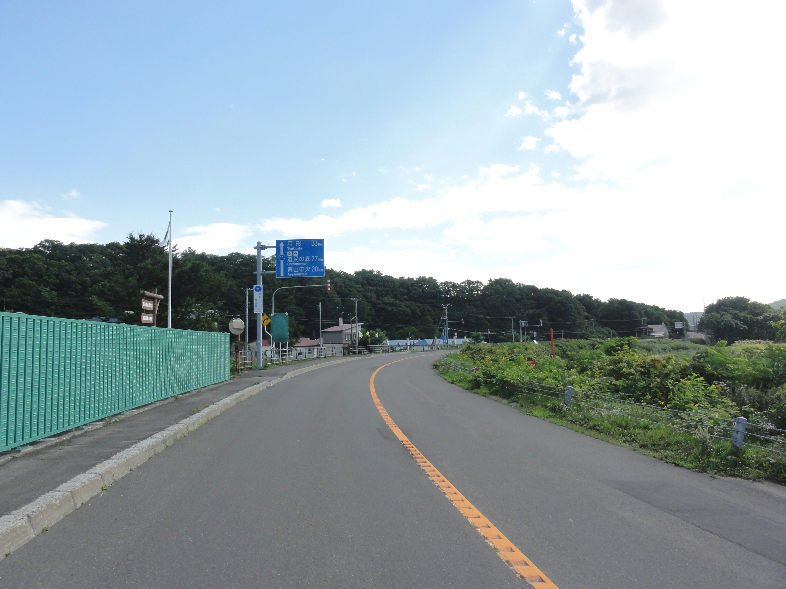 Hokkaido Pref Route 11 (Ishikari, Hokkaidō)